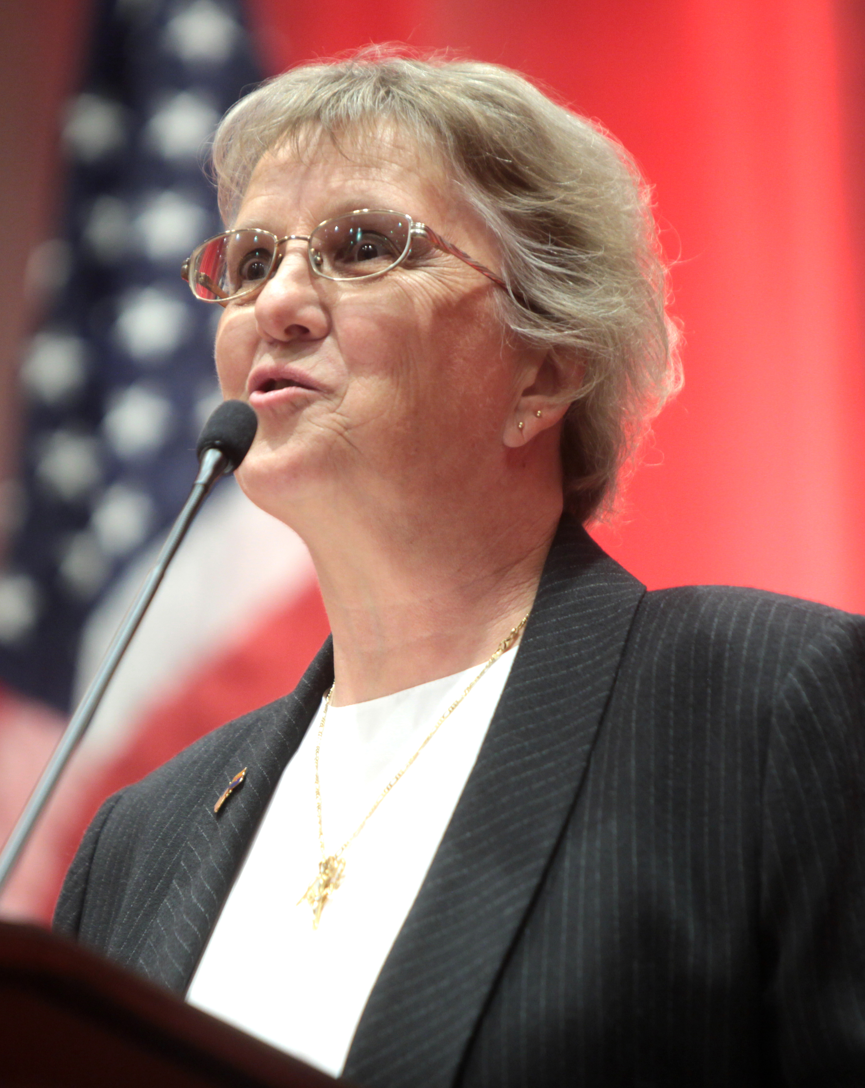 Diane Douglas speaking at a campaign rally in Phoenix, Arizona.